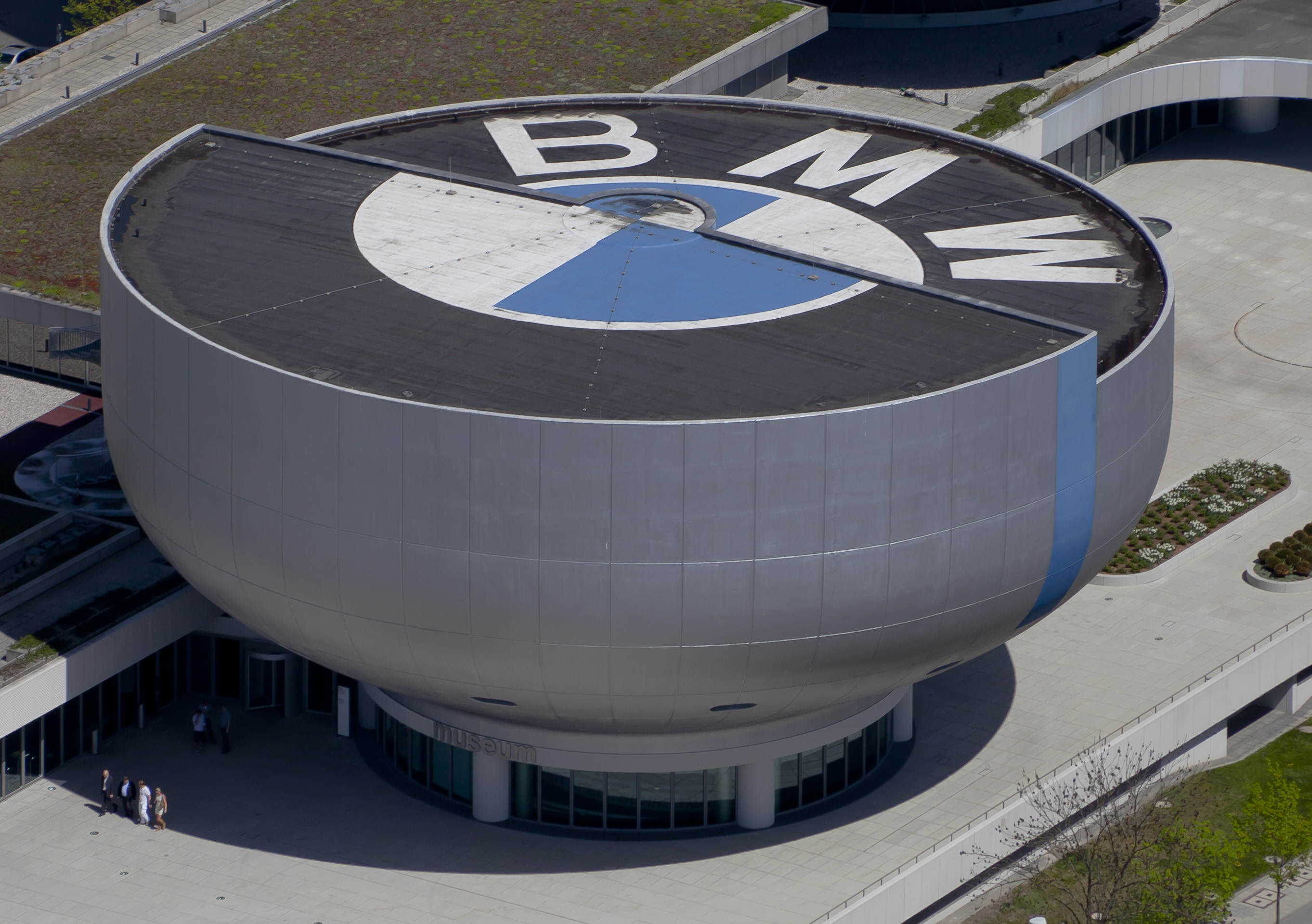 BMW Museum, Munich, Germany